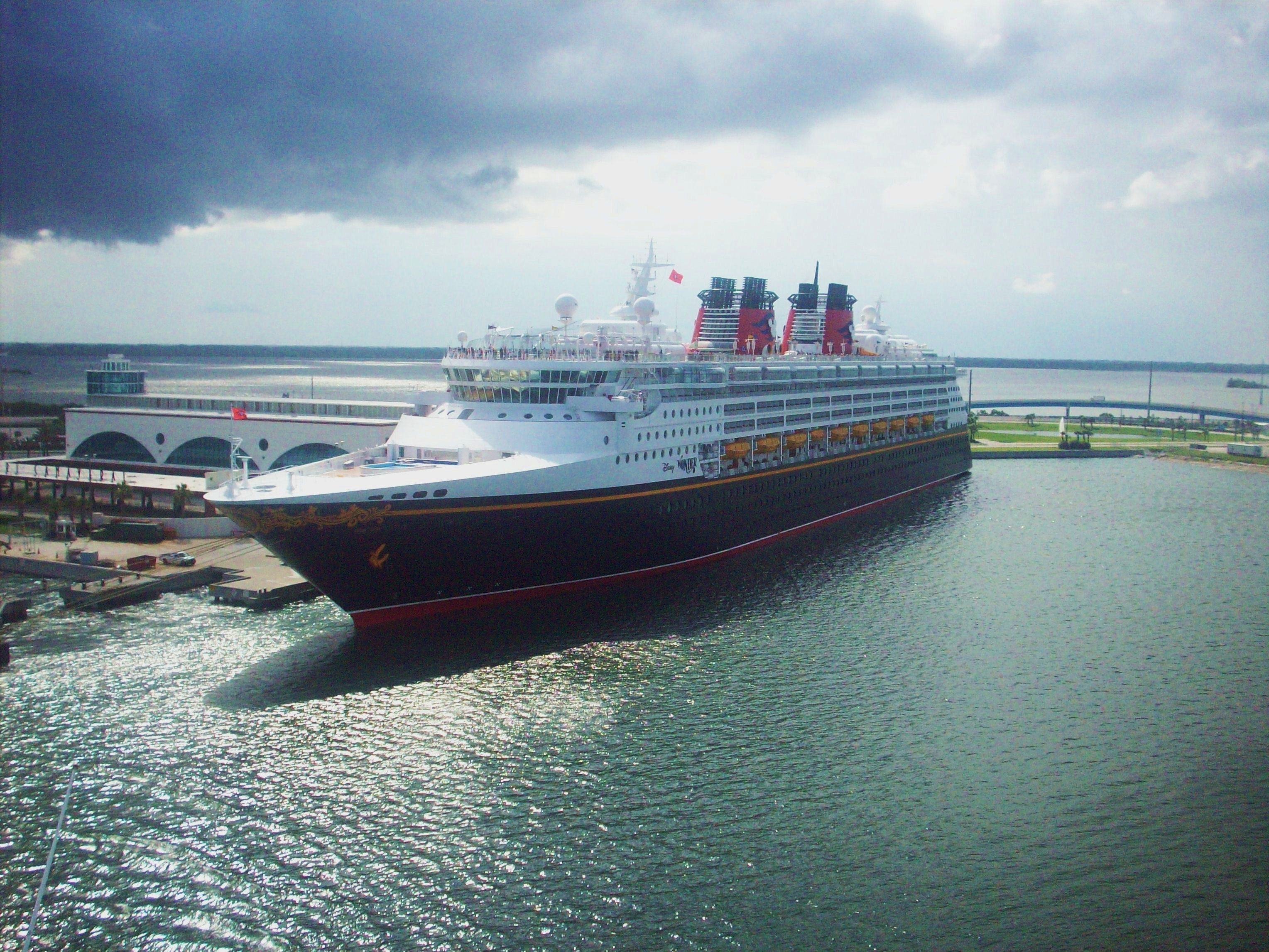 Disney Cruise Lines' Disney Wonder in Port Canaveral Information about Disney Wonder may be found at IMO 9126819. A ship can change her name and flag state through time, but the IMO number remains the same through the hull's entire lifetime. Therefore, it's useful to identify a ship through her IMO number.